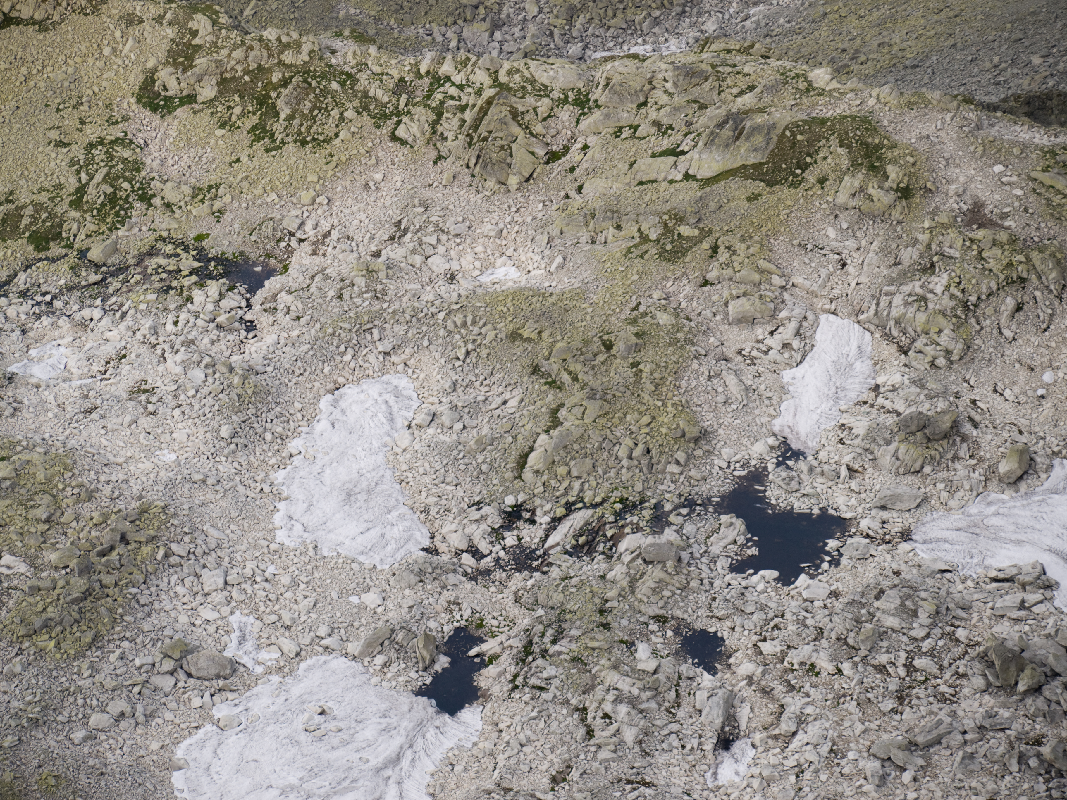 Batizovské oká – view from Gerlachovský štít.